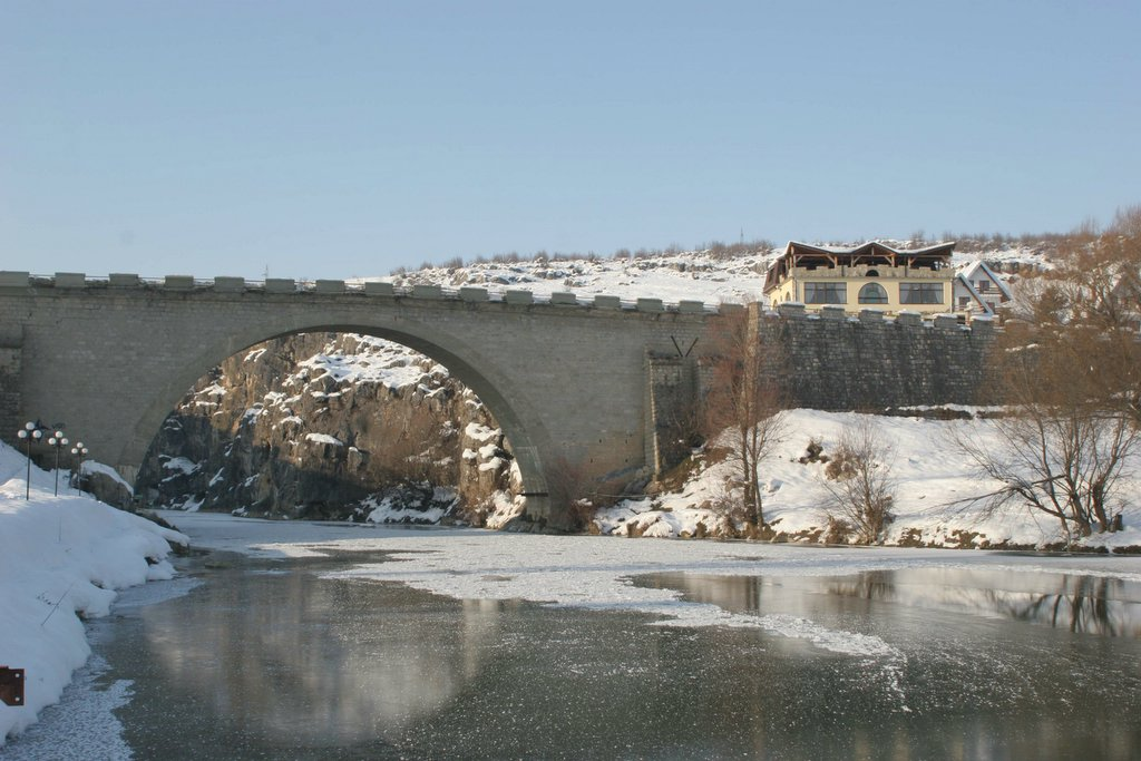 Ura e Fshejte on the White Drin river.